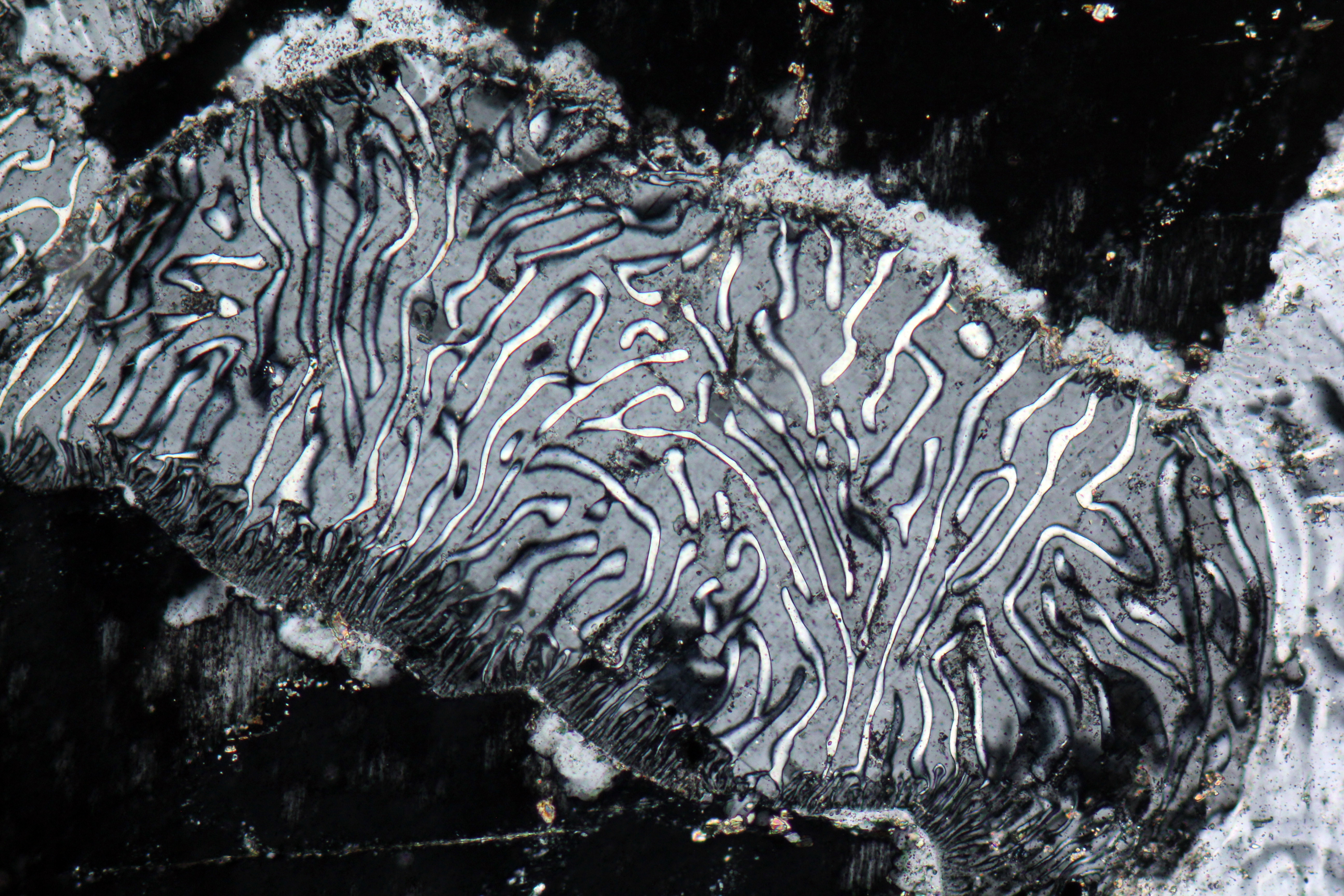 vermicular intergrowth of branching rods of quartz (Myrmekite) in a plagioclase. Crossed nicols image, magnification 10x (Field of view = 2mm)